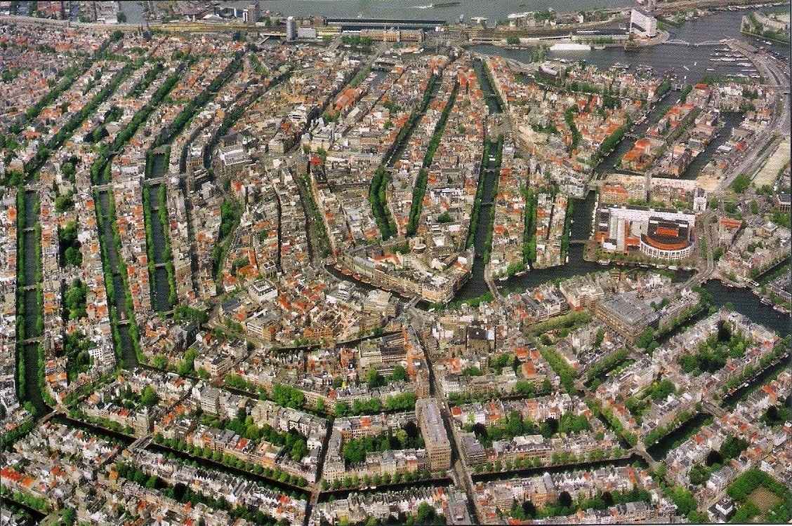 An aerial view of the Amsterdam city center and Canal Ring